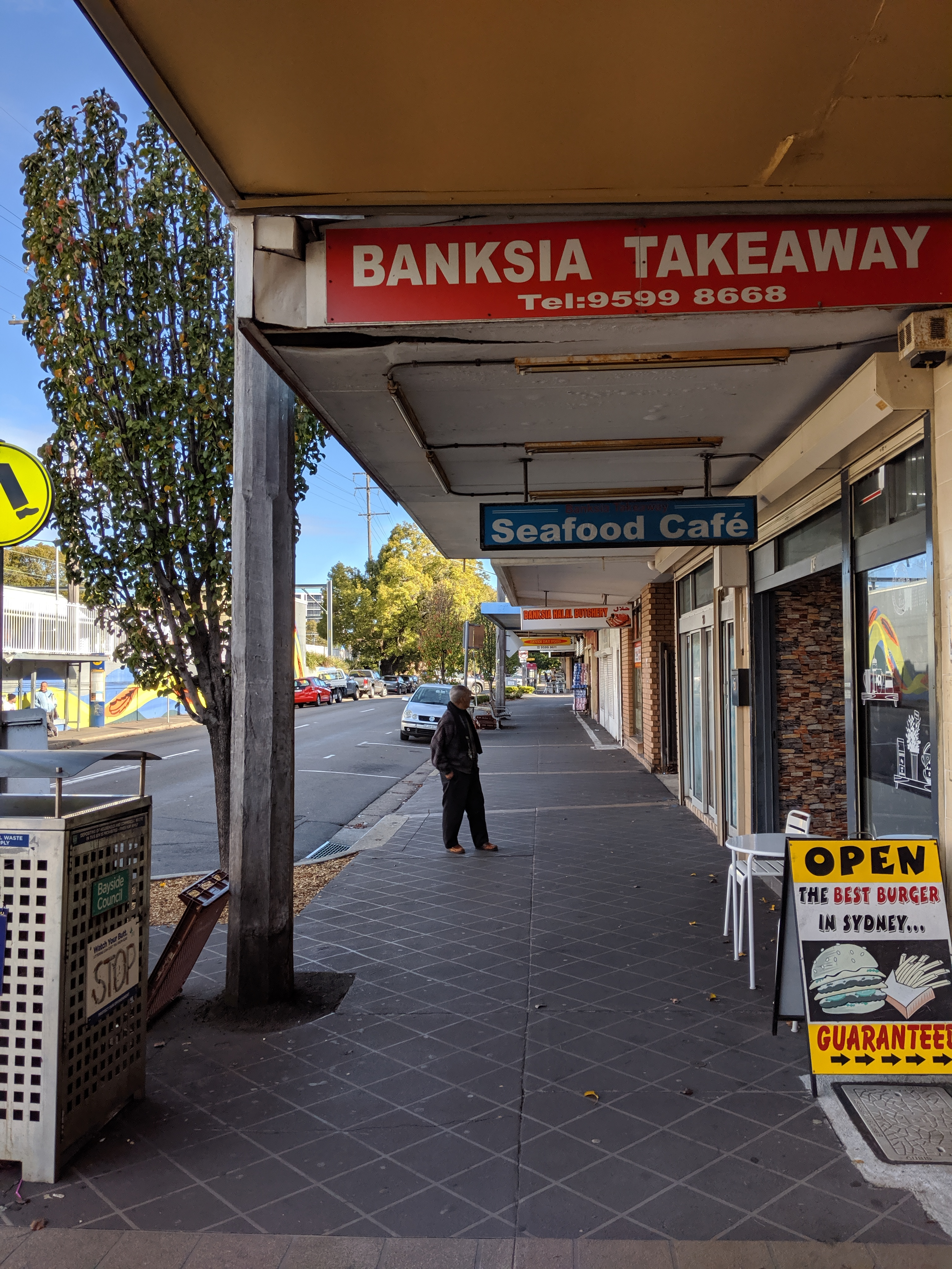 Shops in Banksia, along Railway Street, Opposite to Banksia Station